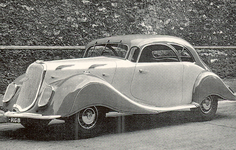 Panhard & Levassor Dynamic Coupé Major (1936)